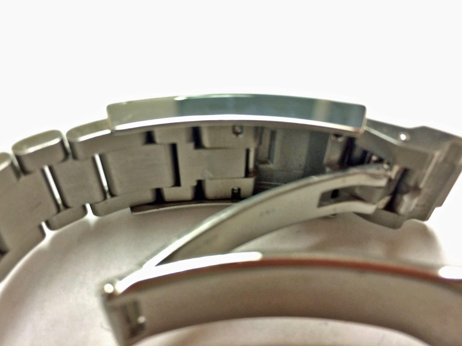 New Rolex Watch Band micro adjustment design